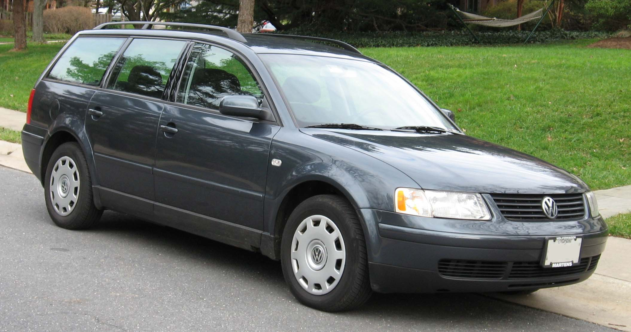 1998-2002 Volkswagen Passat photographed in USA.